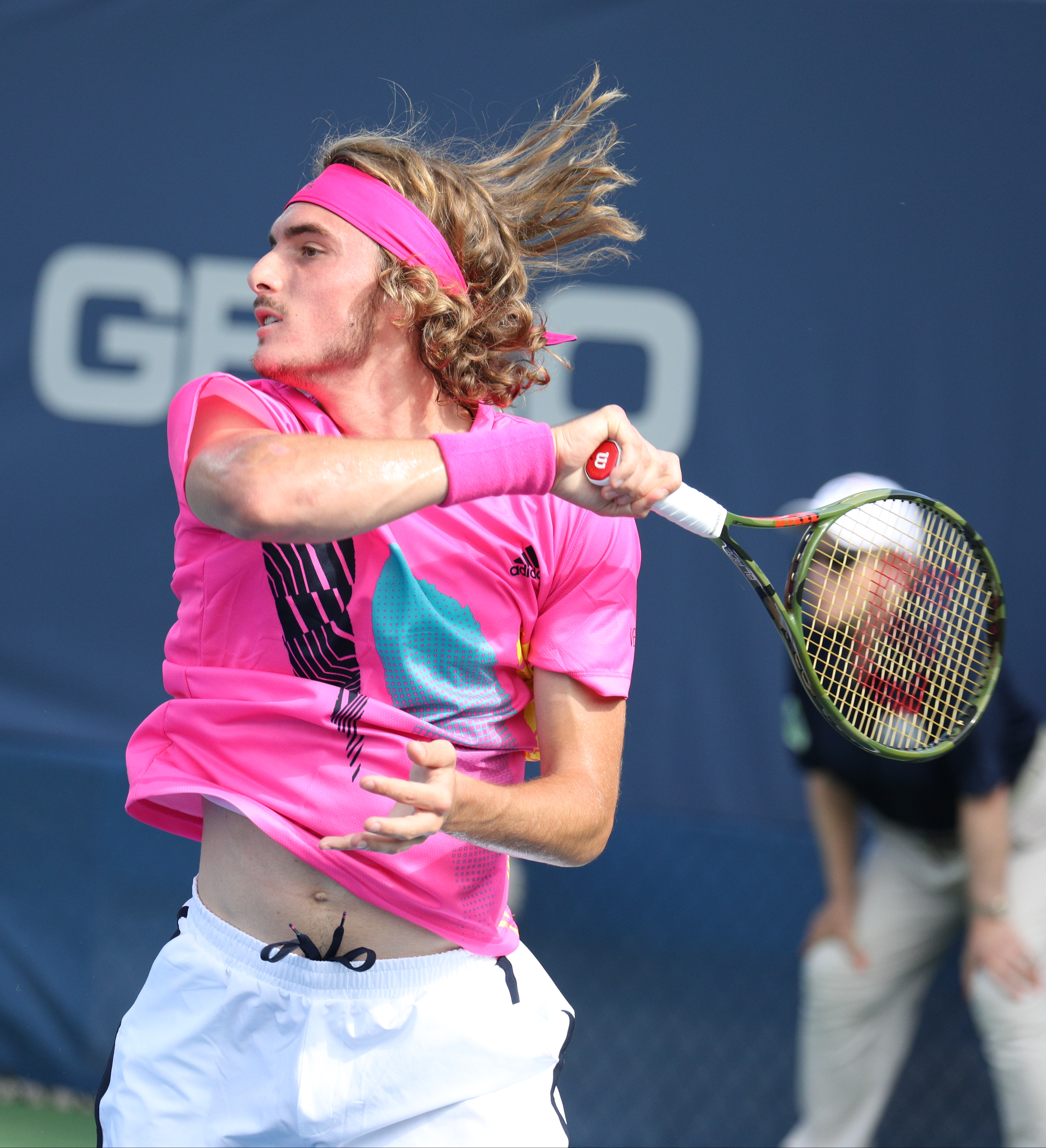 2018 Citi Open